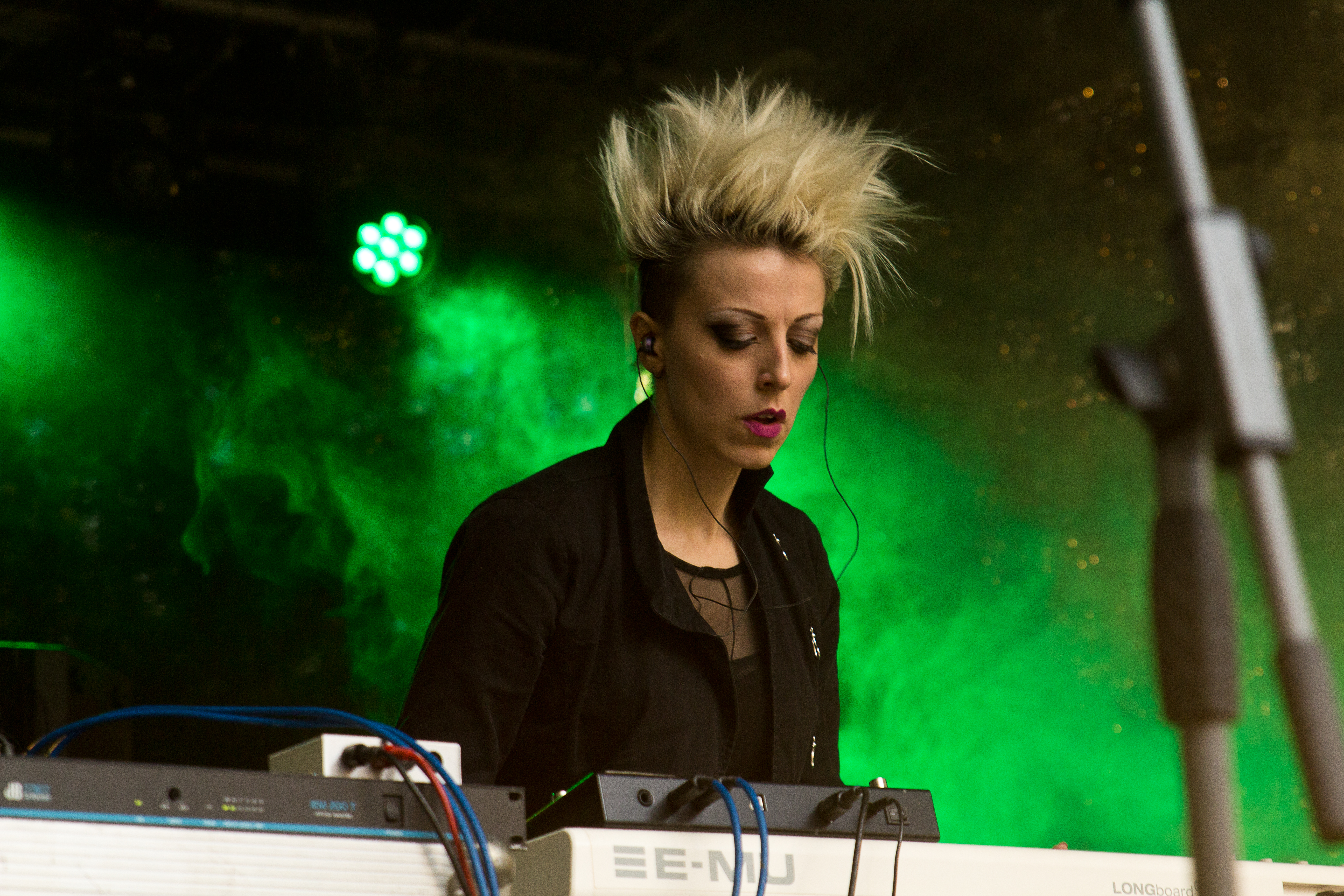 The Italien dark wave band The Frozen Autumn at the Nocturnal Culture Night 11 2016 in Deutzen/Germany.